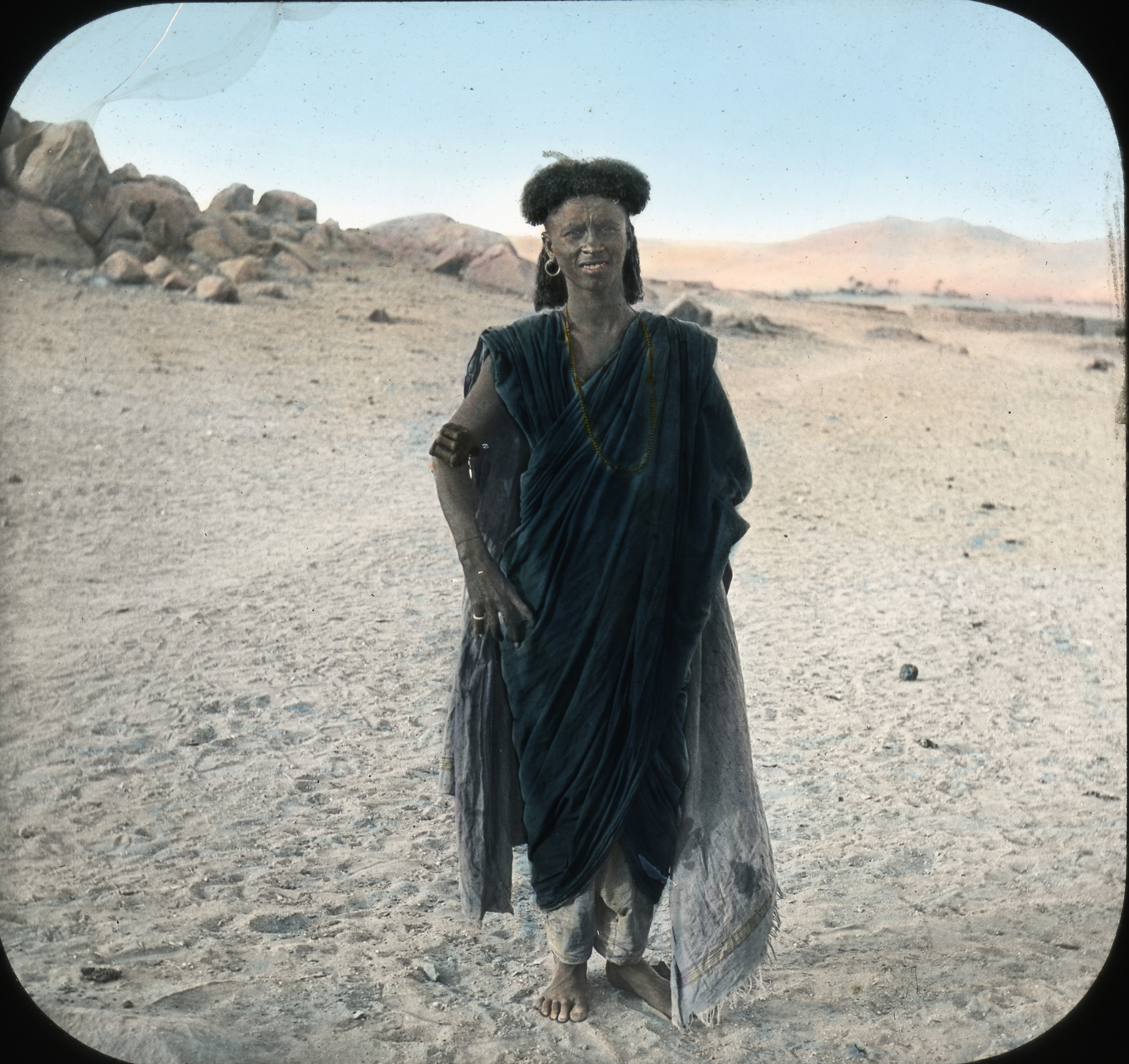 Lantern Slide Collection: Views, Objects: Egypt. General Views\People [selected images]. View 018: Egypt - Bisharin Man, Assuan., n.d., This slide colored by Joseph Hawkes. Hooper. Brooklyn Museum Archives (S10|08 General Views_People, image 9761). Help us map this image by using Suggestify to suggest a location for it.